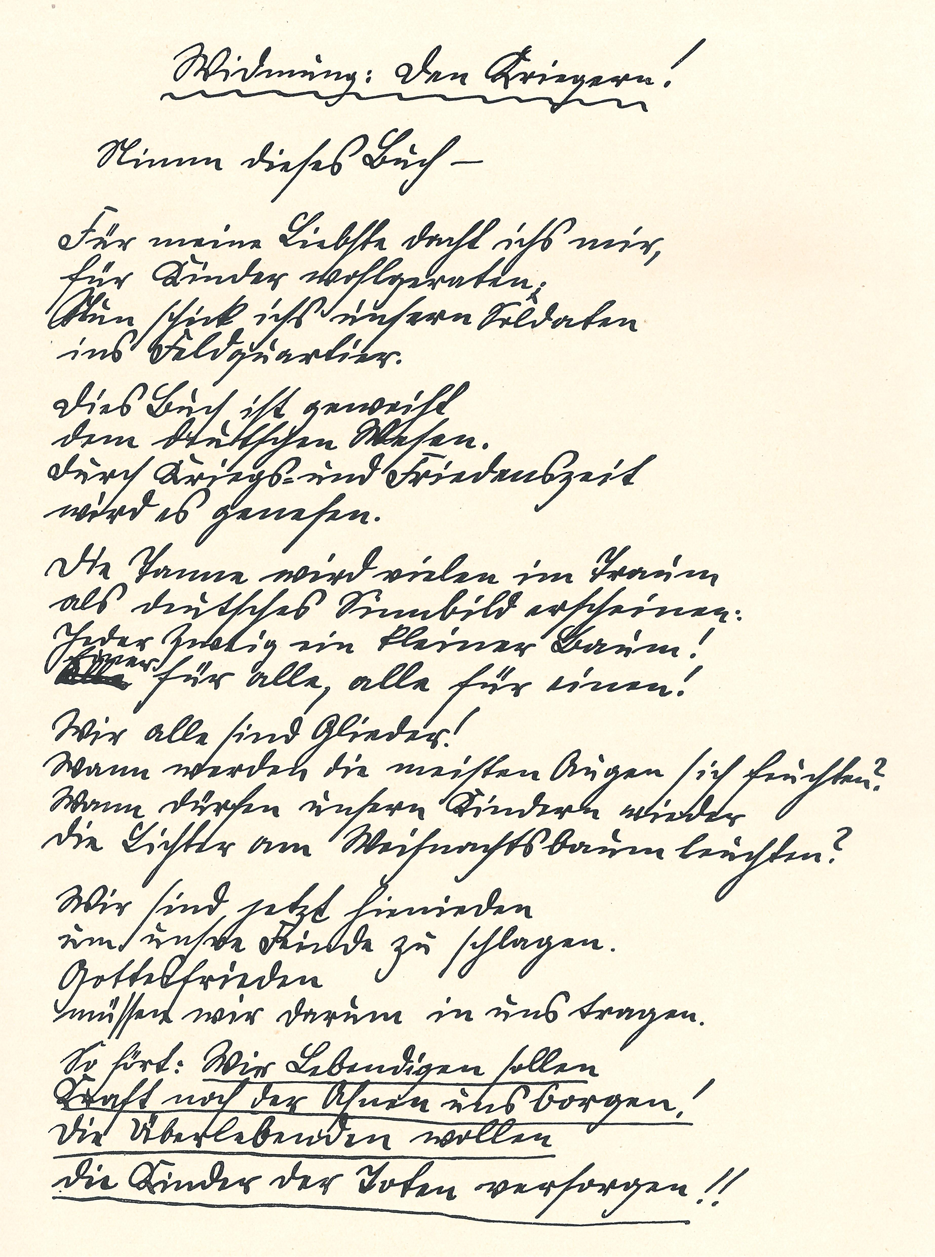 Facsimile by W. Heymann